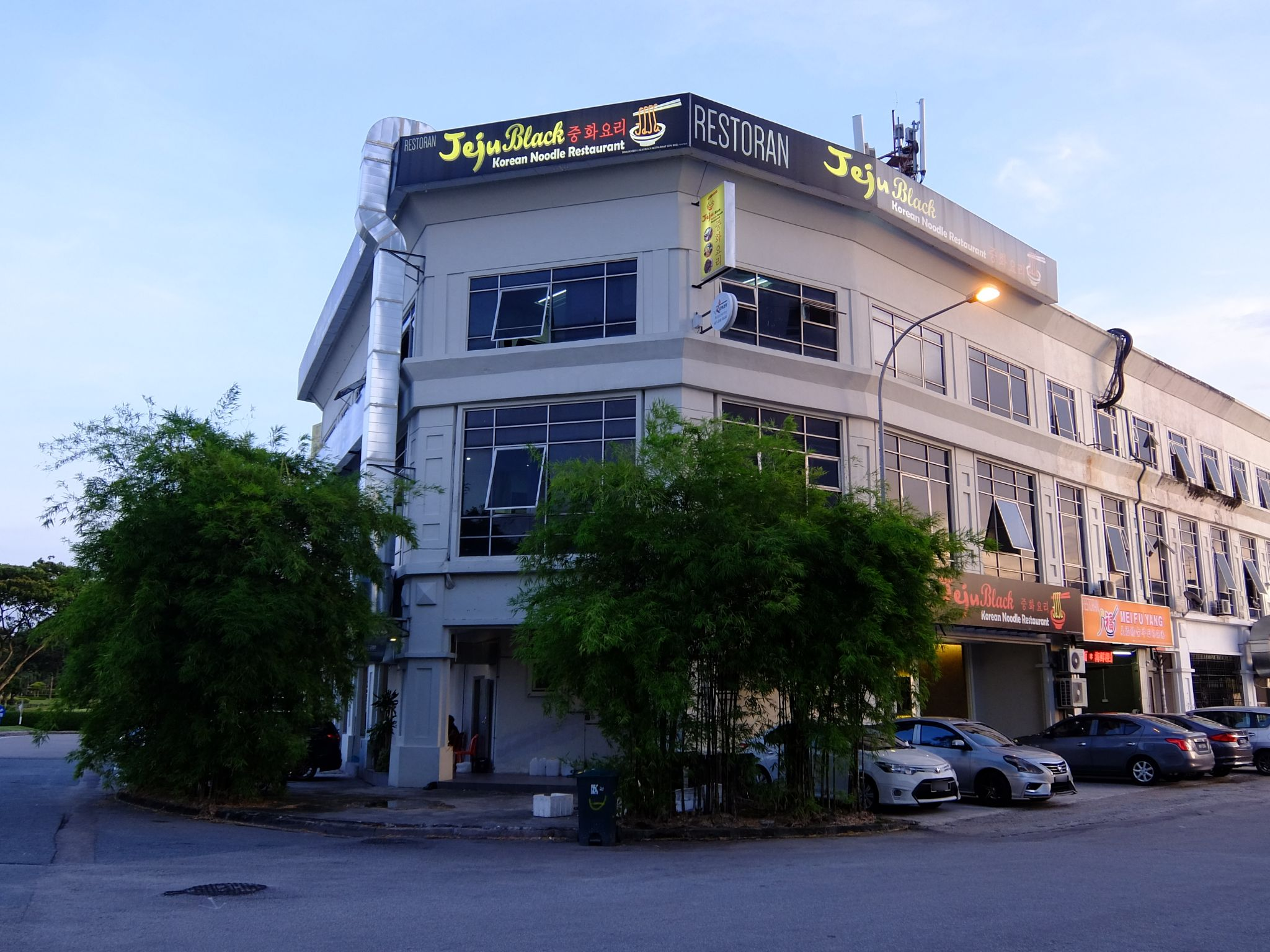 Jeju Black Korean Noodle Restaurant, Bukit Indah, Iskandar Puteri, Johor, Malaysia